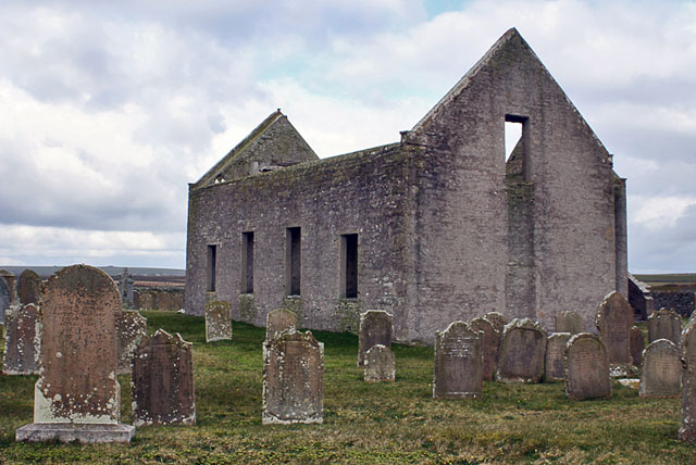 Lady Kirk, Sanday, Orkney. Lady Kirk lies between the B9069 and The Little Sea (aka The Peedie Sea) on the island of Sanday, in Orkney. The church dates back to 1773 but is thought to have been built on an earlier site and may include archeological features from a preceding building. There is an external stairway to the ruined shell of the kirk, at the top of which may be found "The Devil's Handprint" (or "Devil's Clawmarks") - an impression of a "hand" in the stonework. There is a local tale regarding the handprint , which is more likely due some form of erosion.